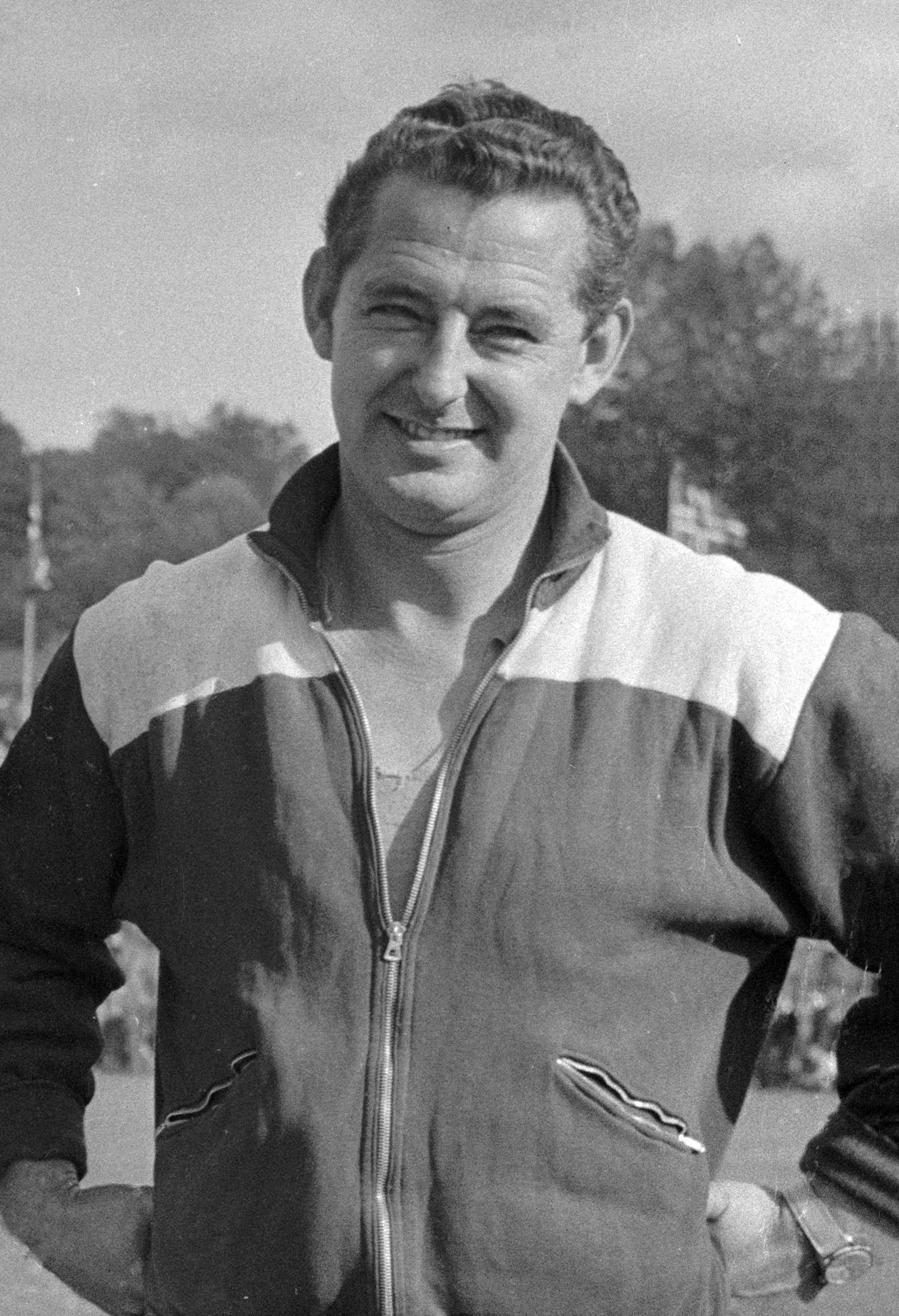 Coach Arne Sørensen after the international match Denmark-Norway 1959